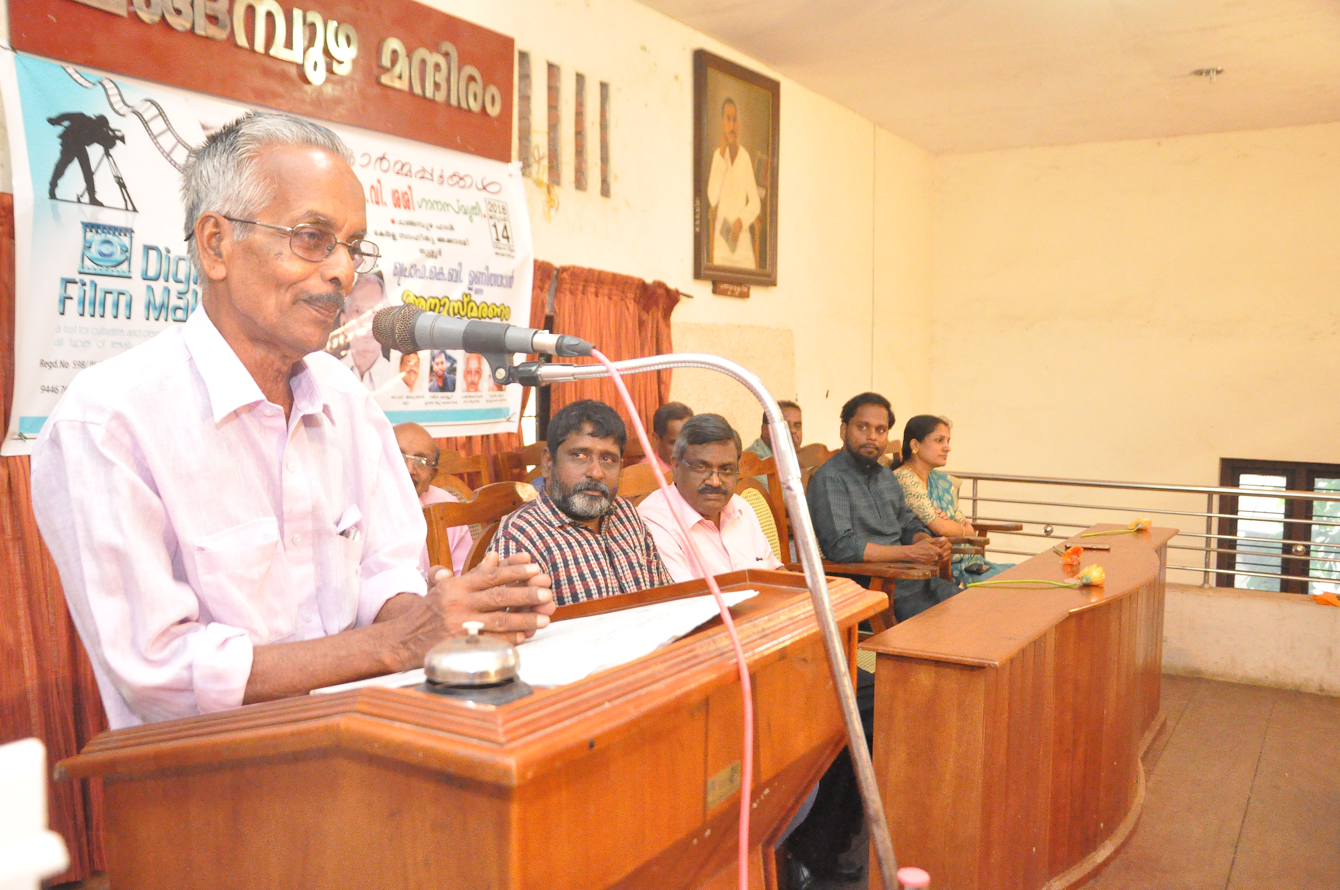 Pangil Bhaskaran speaks in 'Oormmappookkal', a function of the musical tribute for I.V. Sasi and the remembrance of Prof. K.B. Unnithan organized by D.F.M.F Trust at Vyloppilly hall of Kerala Sahitya Akademi on 14-January-2018